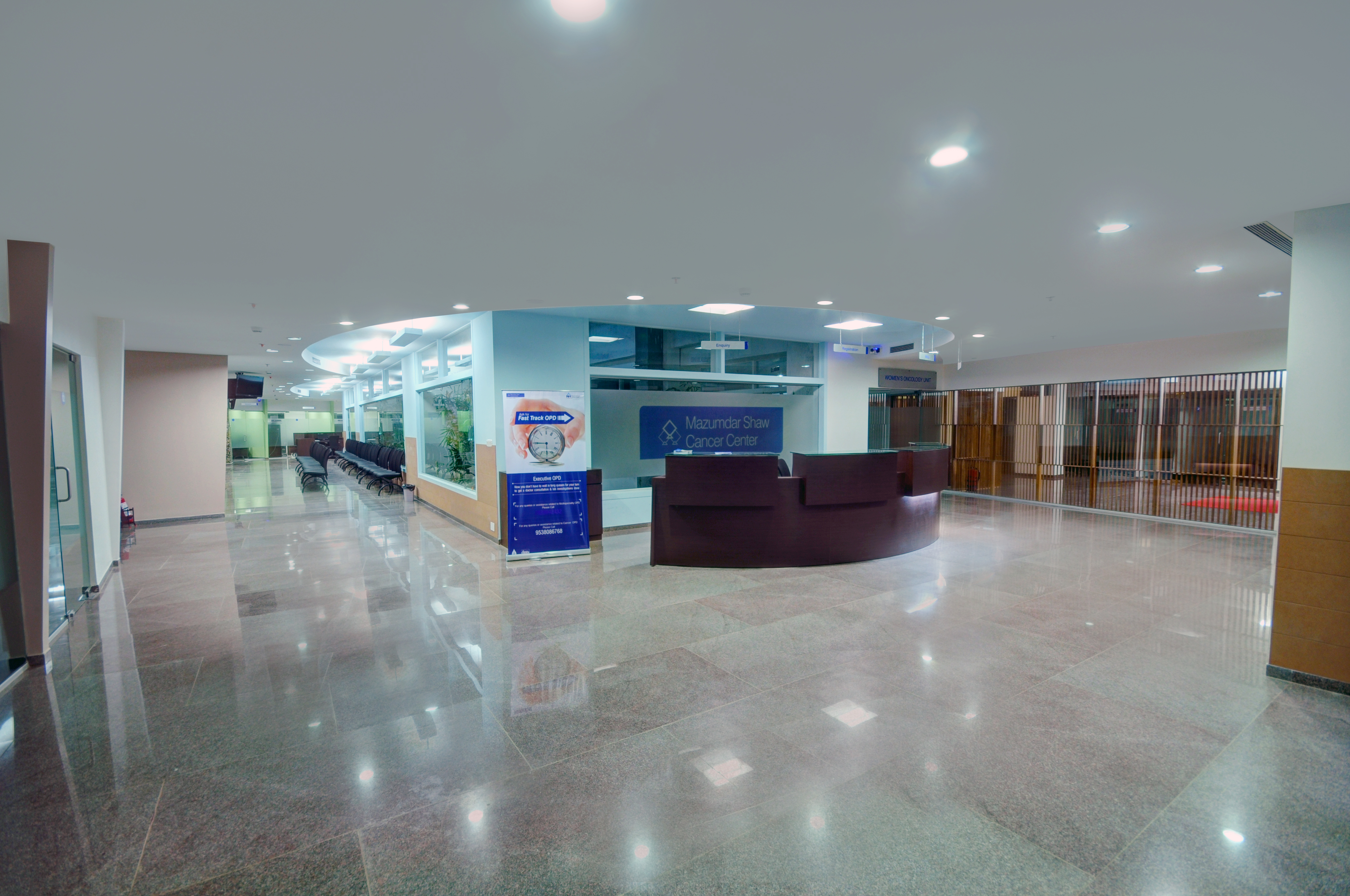 MSMC - Inside 5